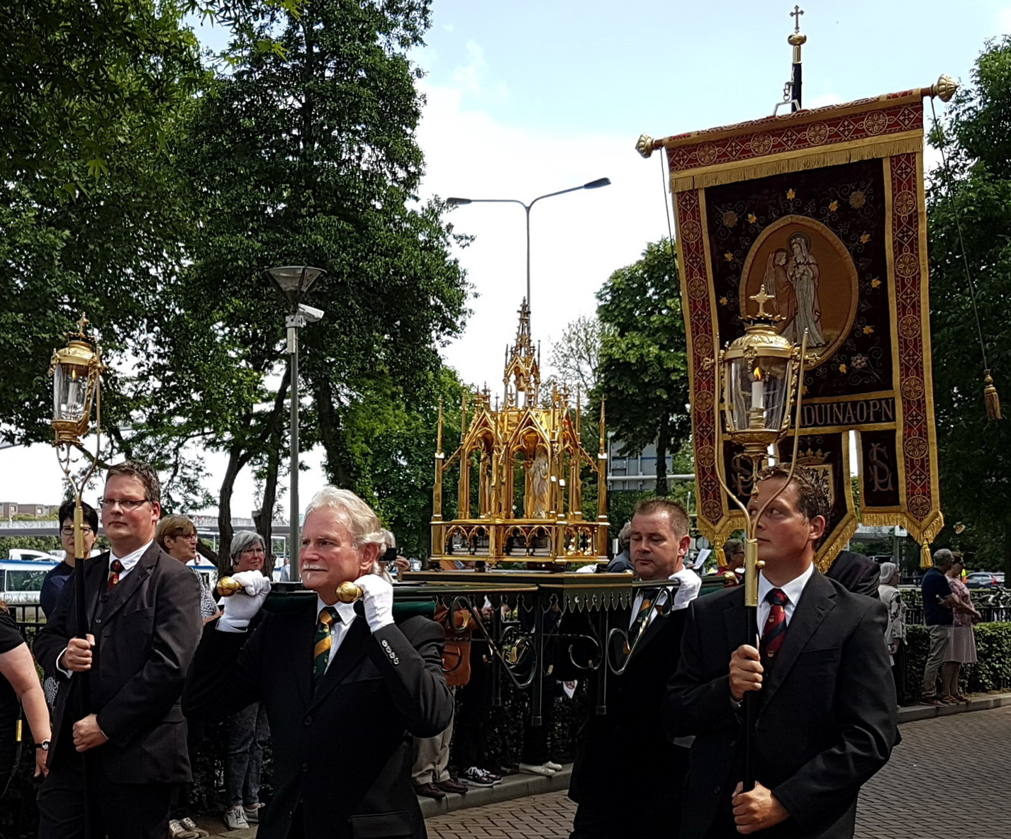 Participants in a historic religious procession during the 2018 Heiligdomsvaart (Relics Pilgrimage) in Maastricht, Netherlands. The history of this seven-yearly catholic pilgrimage goes back to the Middle Ages. The first 'modern' version took place in 1874. On both Sundays of the 10-day festival, a procession is held in which the main relics and other devotional objects are exhibited. This photo was taken at Het Bat during the (second) procession on Sunday 3 June 2018. This particular group represents the Roman Catholic Basilica of Saint Liduina and Our Lady of the Rosary in Schiedam, where Saint Liduina is venerated. Her reliquary is carried on a processional litter.